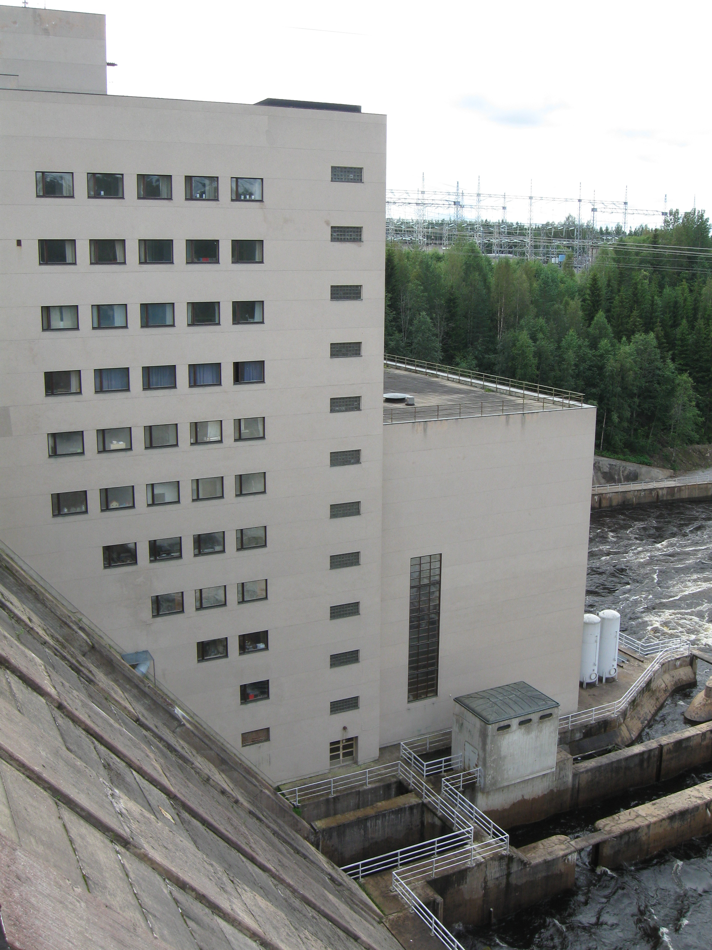 The Pyhäkoski power plant in the Oulujoki river in Leppiniemi, Muhos, Finland.